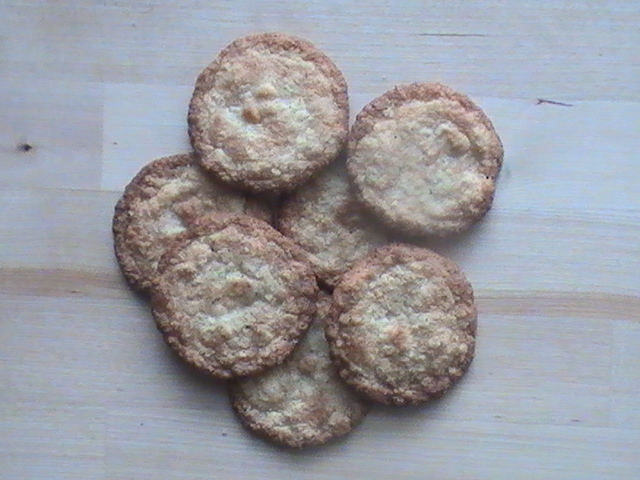 Oat crisps manufactured by Swedish company named Gille. Oat crisps are crisp shaped cookies which are famous in Nordic countries.